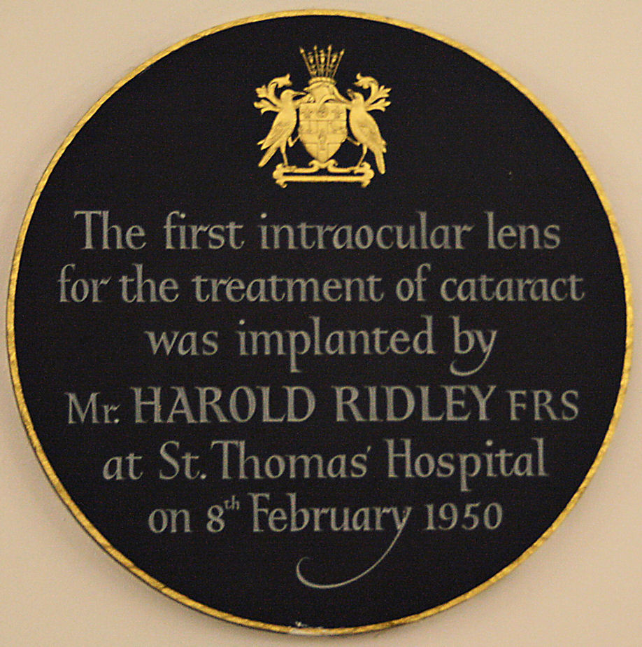 Plaque commemorating the world's first implantation at, London, England. Note: Harold Ridley and his theatre nurse (Mrs Doreen Ogg) both described the first implantation date as being on 29th November 1949, and when in 1999 Ridley was asked whether the IOL's 50th anniversary should be in November 1999 or February 2000 he chose November and attended the celebratory banquet organized by Rayner to mark the occasion at London's National Science Museum on 29 November 1999. Public space in public (NHS) hospital plaque commemorating world first at the hospital